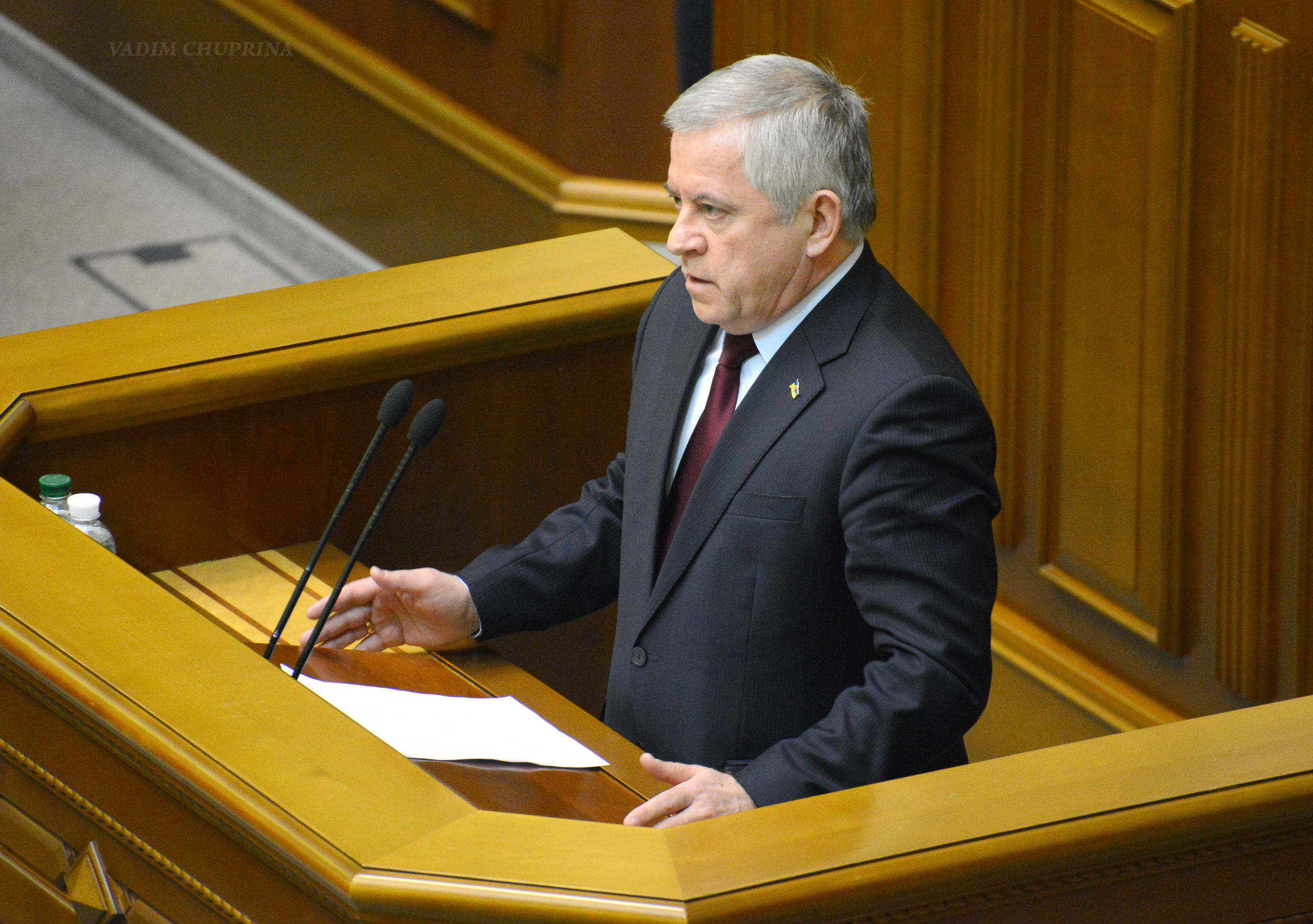 Ukrainian politicians VADIM CHUPRINA